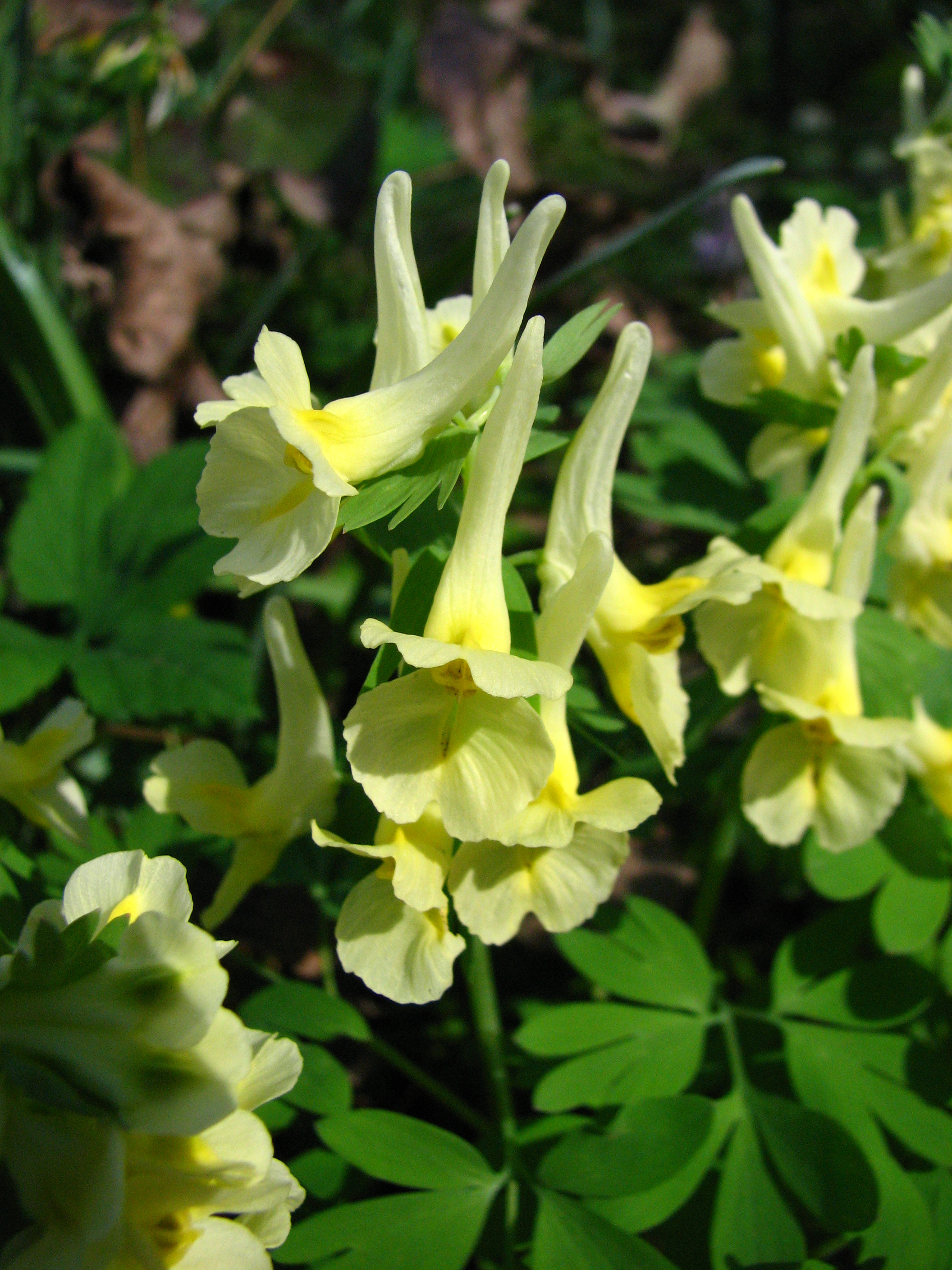 Corydalis bracteata in flower beds in the Botanical Garden of Moscow State University "Aptekarsky Ogorod".